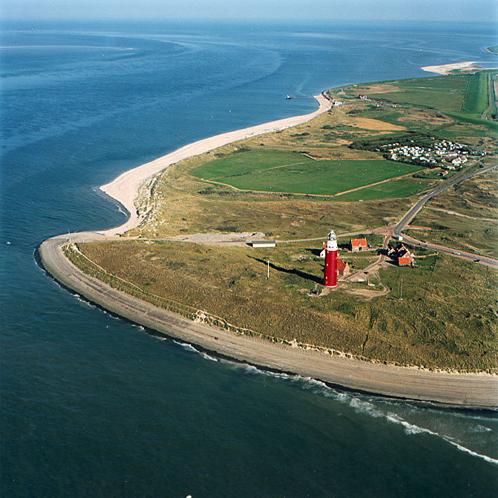 This is an island.